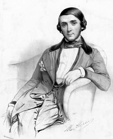 French pianist and composer Jean-Henri Ravina (1818-1906) by Marie-Alexandre Alophe (1812-1883).